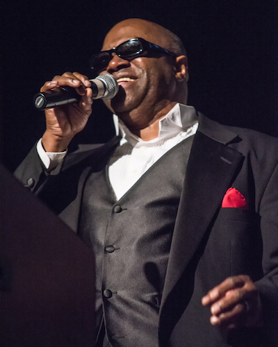 Ellis Hall singing during the symphony performance he co-produced "Soul Unlimited" - a tribute to Marvin Gaye, Jackie Wilson, The Temptations, The Four Tops, Earth, Wind & Fire and Stevie Wonder with a special tribute to Ray Charles